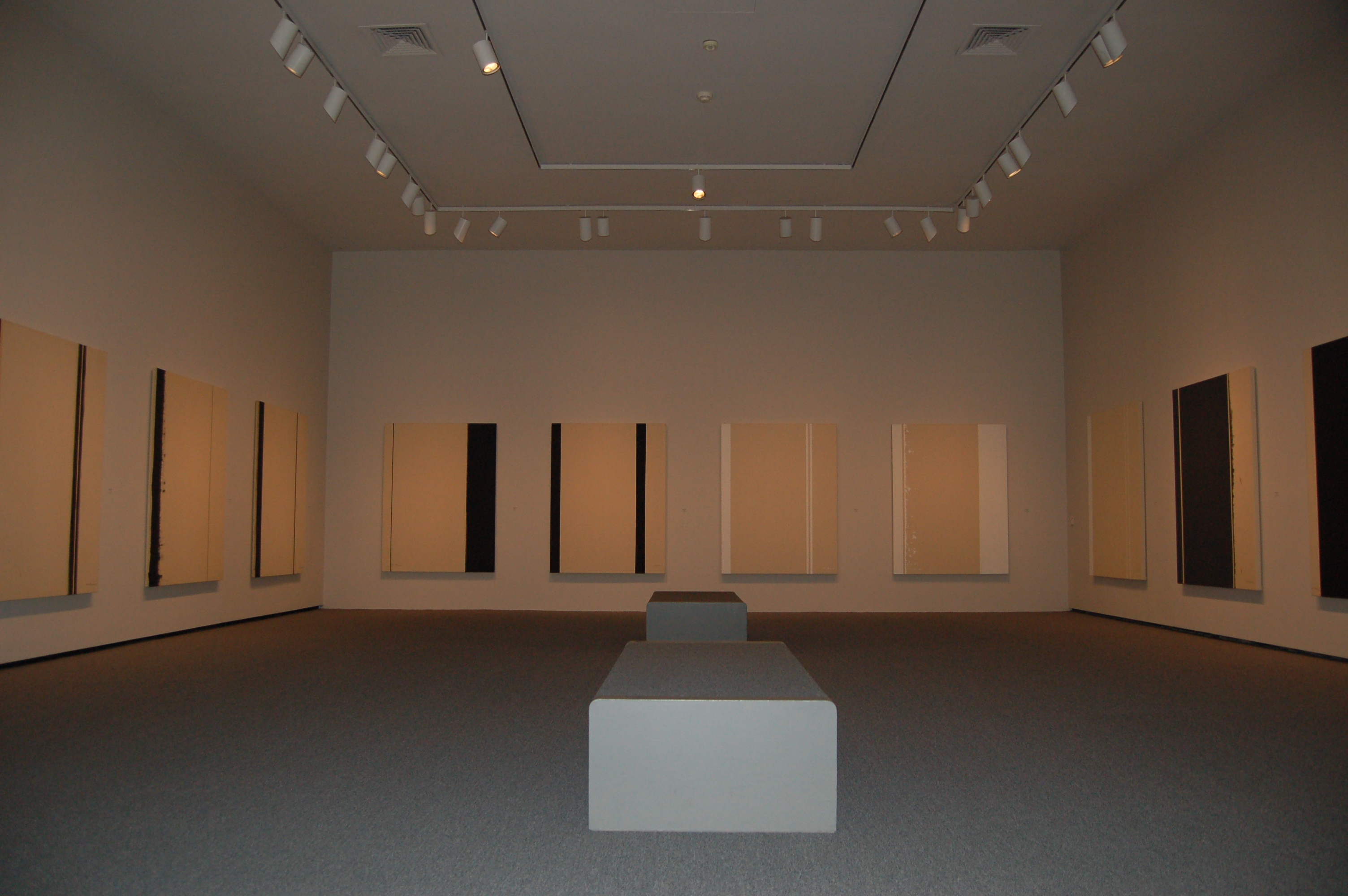 National Gallery of Art - Barnett Newman - The Stations of the Cross - Lema Sabachthani